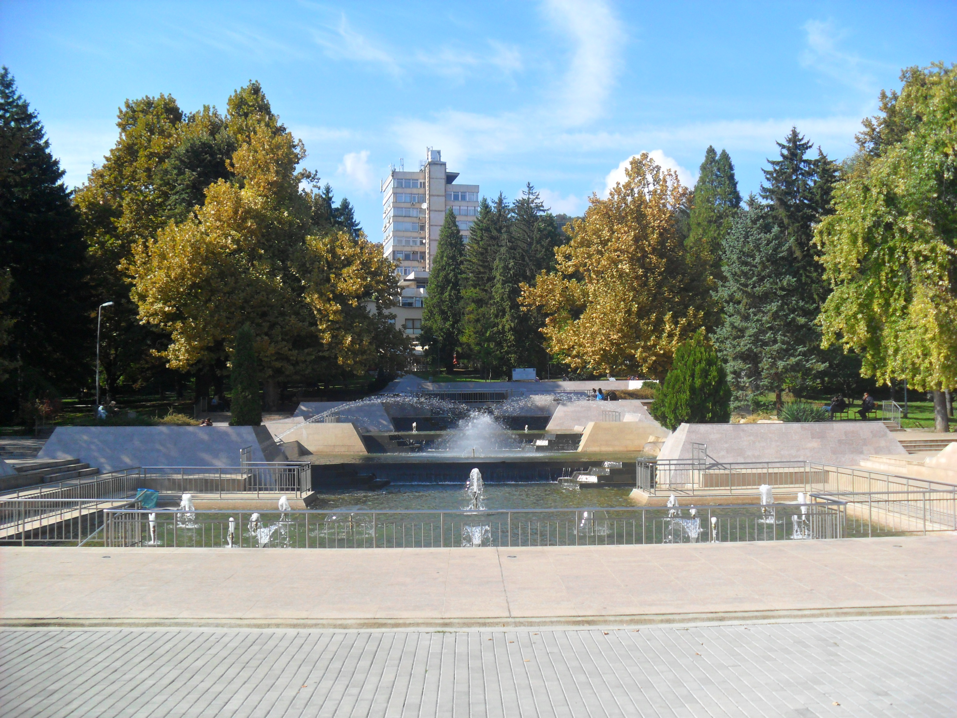 Marno pole Park,Veliko Tarnovo